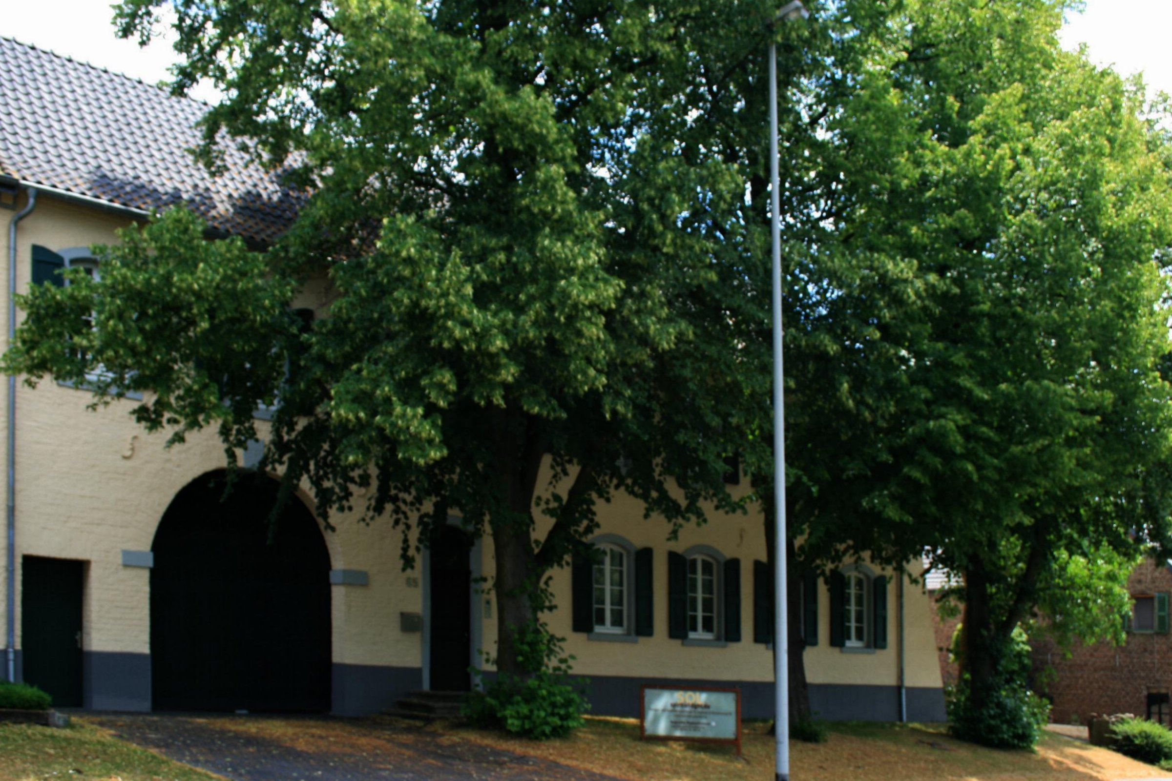 Cultural heritage monument No. B 041b in Mönchengladbach